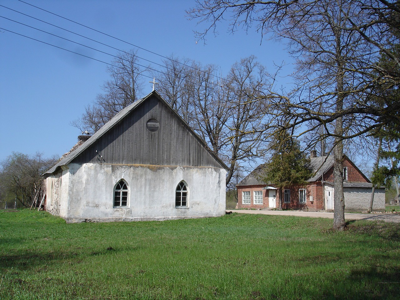 church